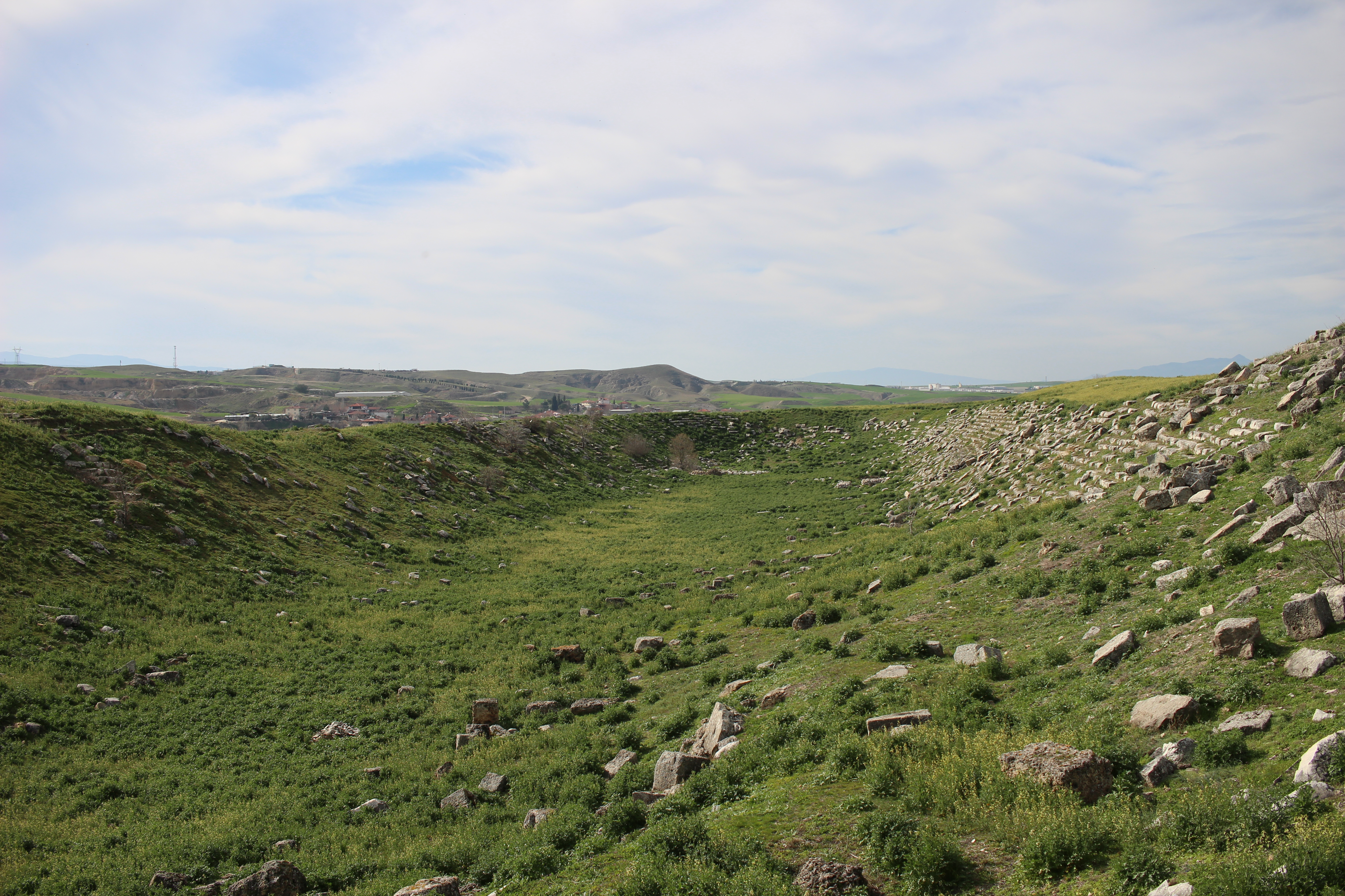 Stadium, Laodicea on the Lycus, Denizli, Turkey